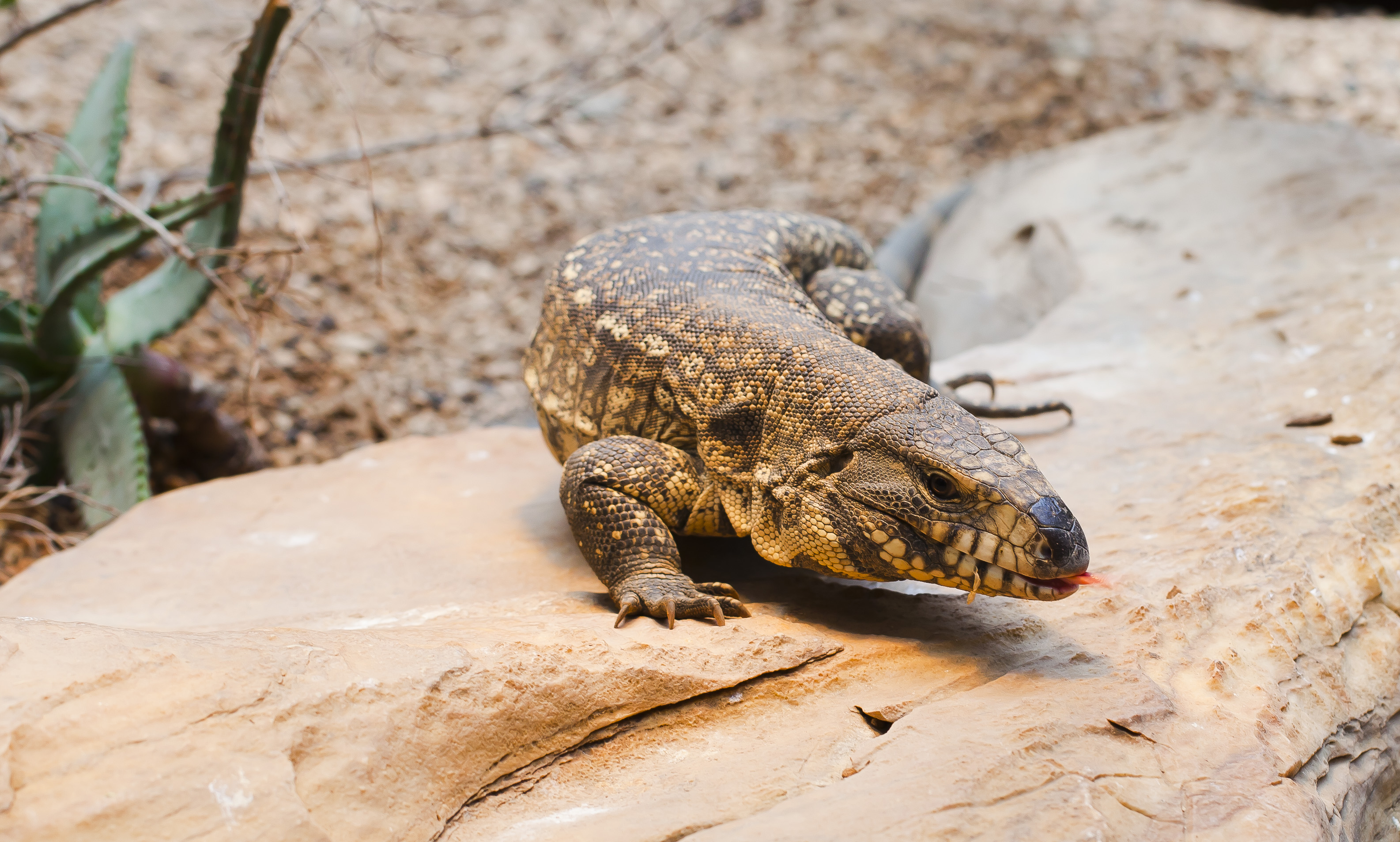 Argentine black and white tegu (Tupinambis merianae), Tierpark Hellabrunn, Munich, Germany